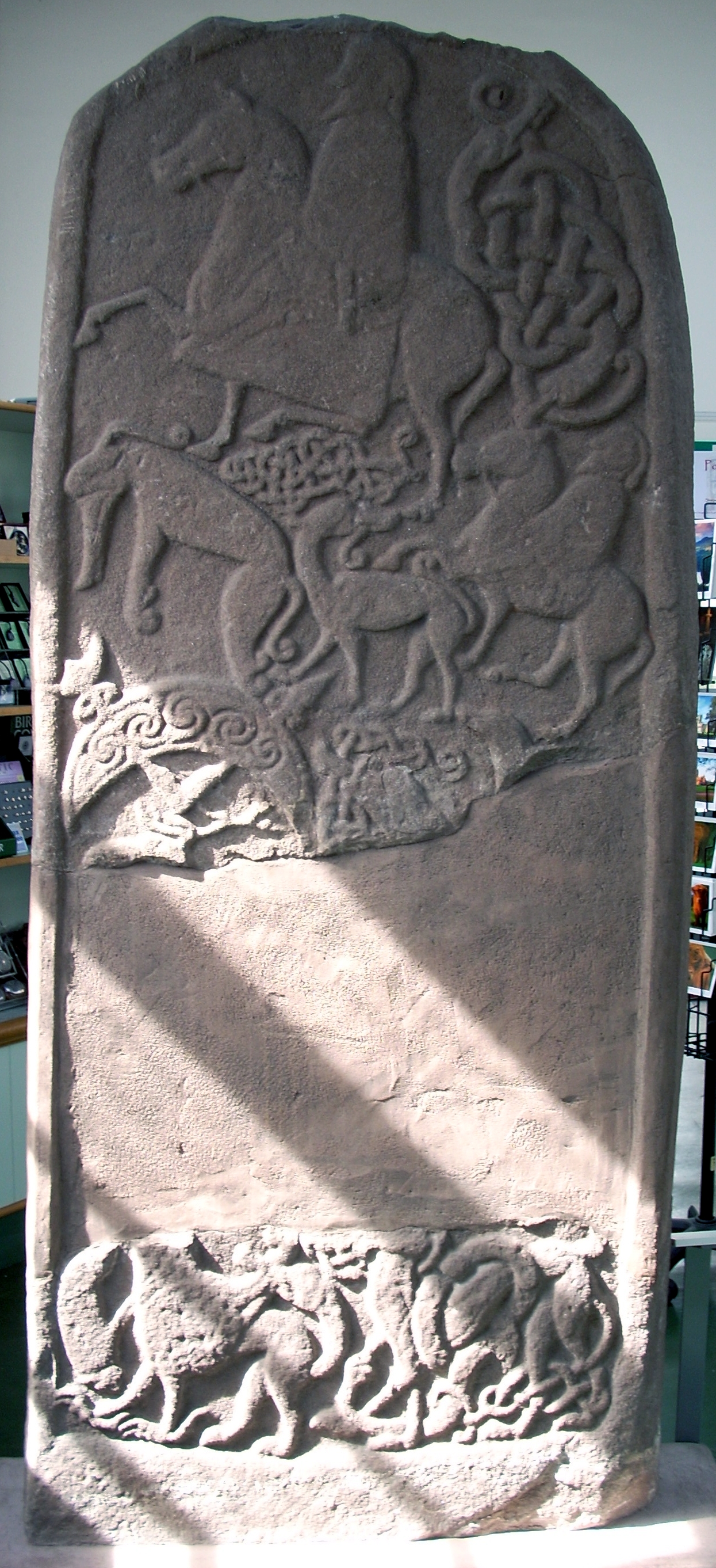 The back of Meigle 4 Pictish stone, in the Meigle Sculptures Stone Museum.